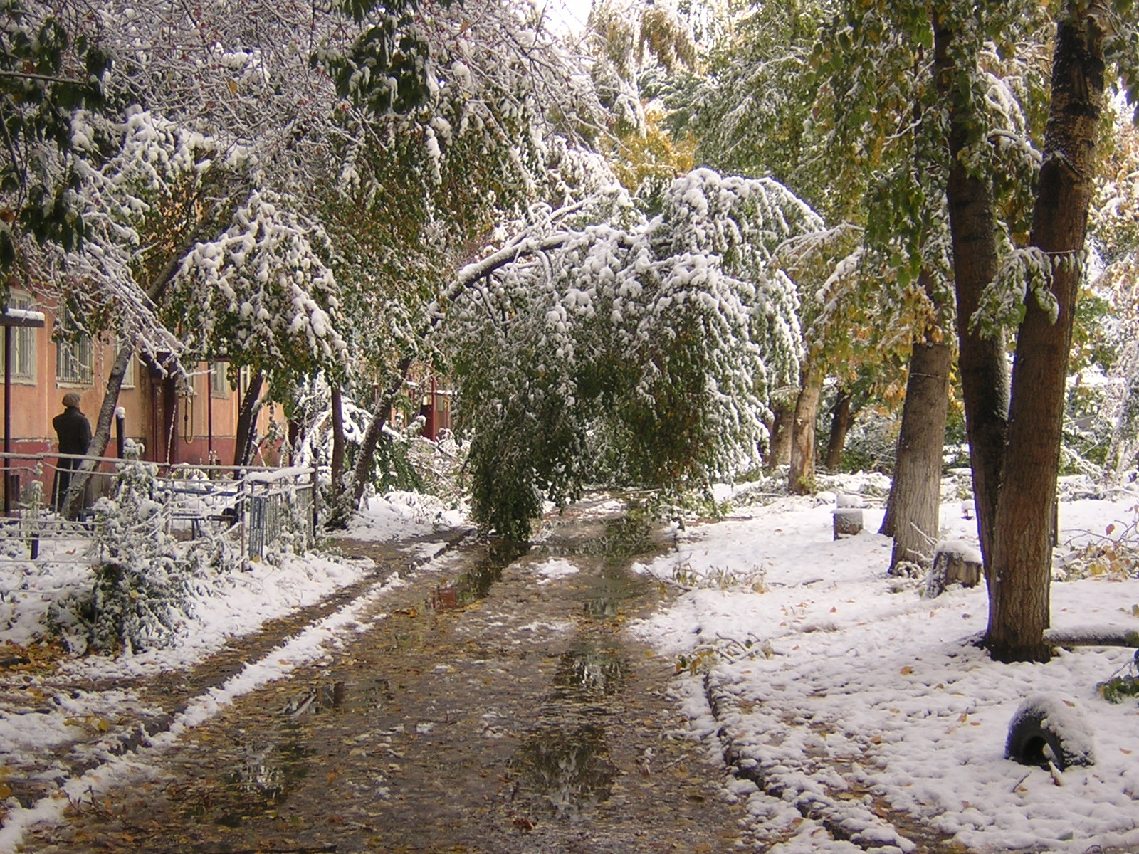 This picture shows the effect of premature snowfall that happened in Barnaul, Russia, on the night of September 26, 2004 (the picture is taken next morning).